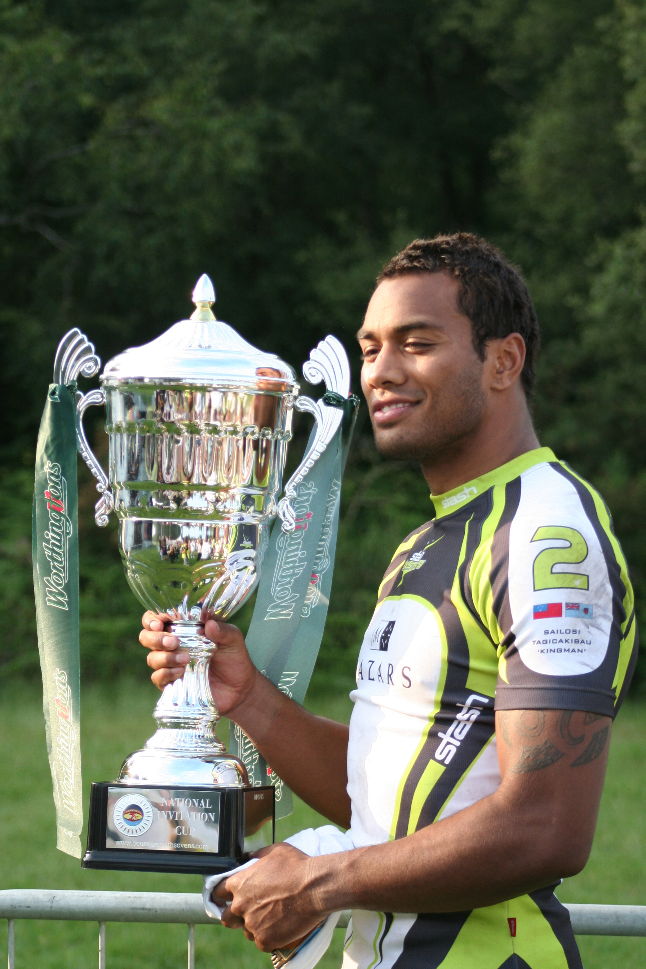 Sailosi Tagicakibau, Stash Allstars, Stash Rugby, London Irish, Bournemouth 7s, Allstars